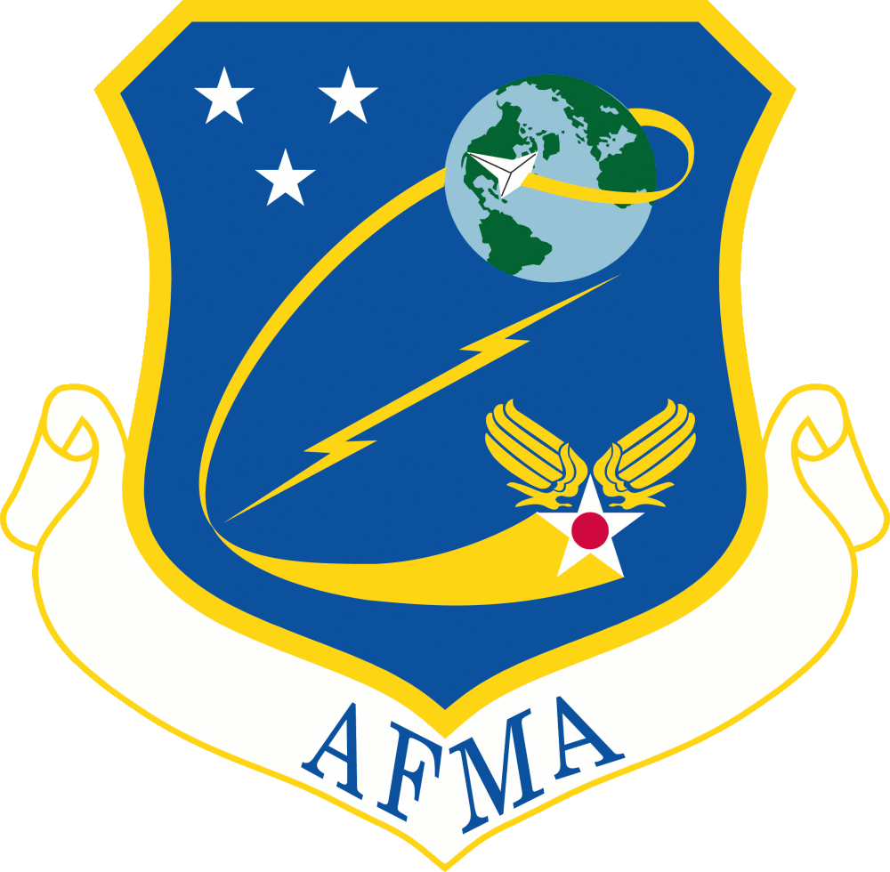 Emblem of the Air Force Manpower Agency of the United States Air Force